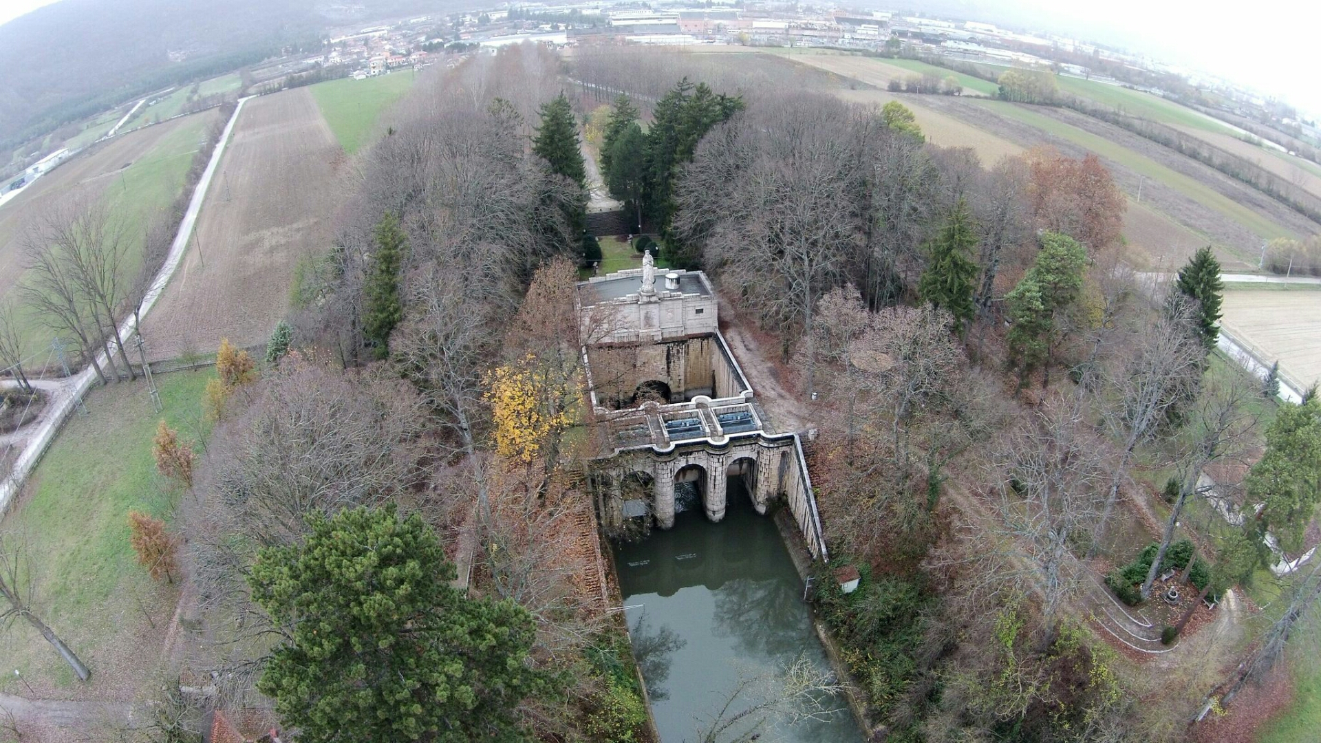 Aerial photo of emissary Claudio-Torlonia in Borgo Incile, Avezzano, Abruzzo, Italy